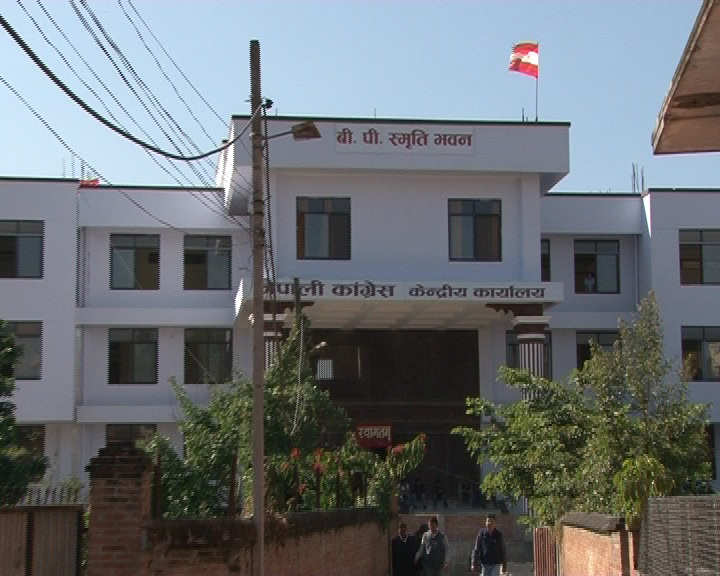 BP smriti bhawan Nepali congress party building